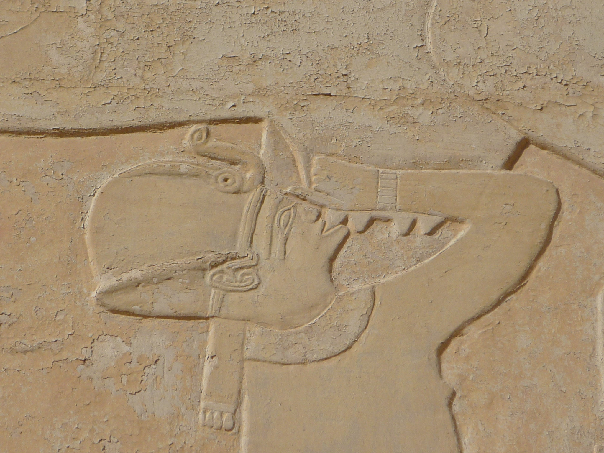 Beastfeeding of Hatshepsut by Hathor, Hatshepsut temple, Deir el-Bahari, Theban Necropolis, Egypt